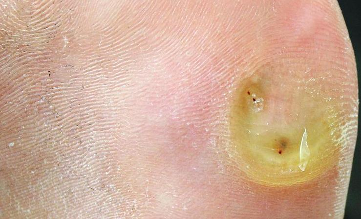 Plantar warts